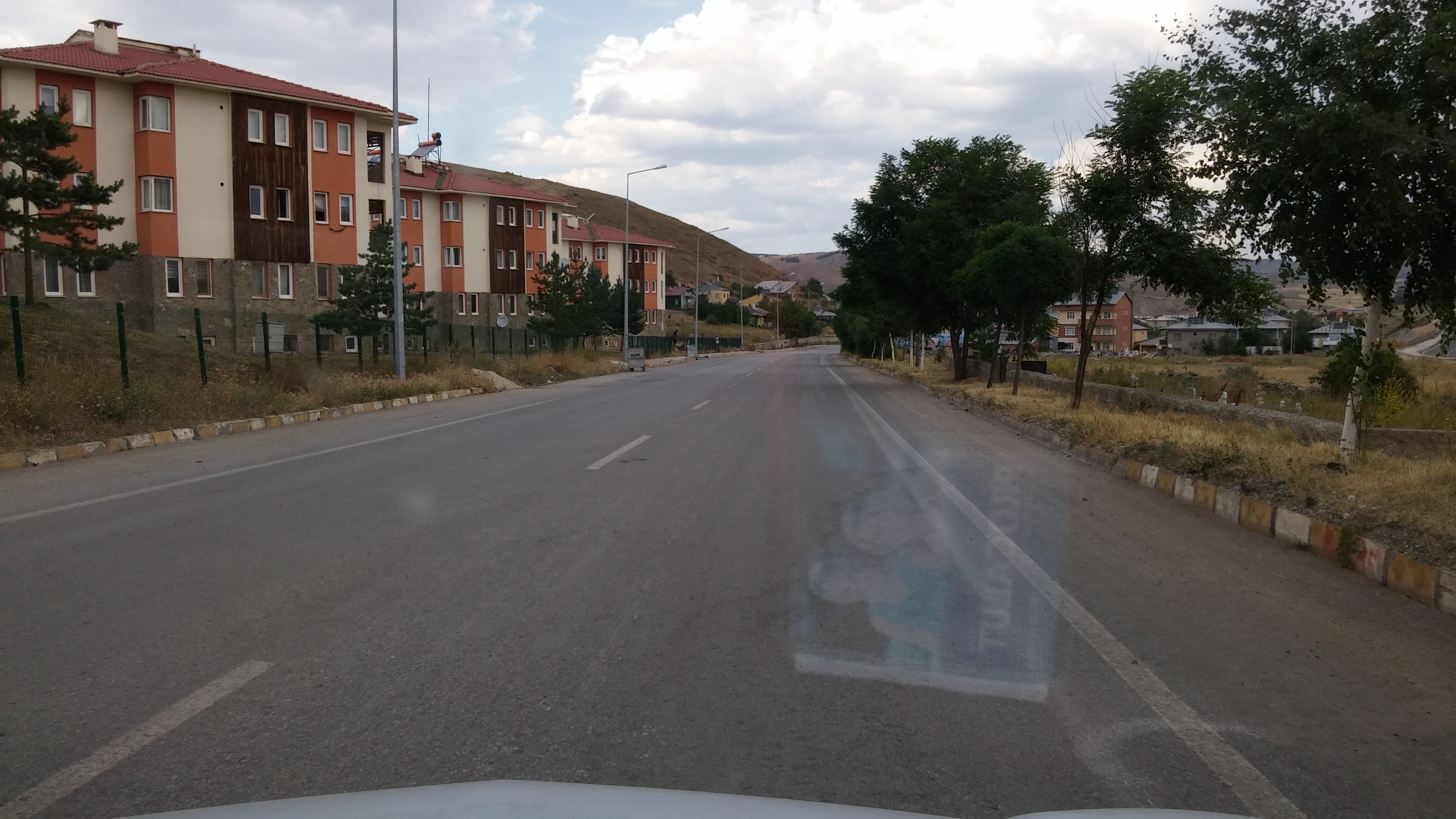 Refahiye Toki